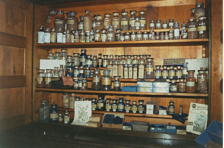 Colours